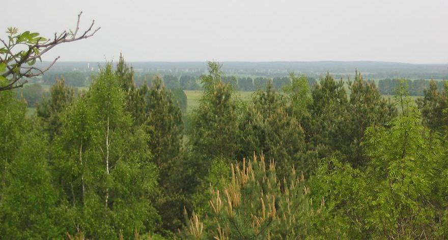 View over the Belziger Landschaftswiesen from Galgenberg (gallows hill, 118 metres) in the landscape High Fläming nearby Lütte, a village (part) of the town Belzig in Brandenburg